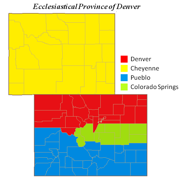 The Ecclesiastical Province of Denver in the Catholic Church encompasses the dioceses in Colorado and Wyoming, USA.